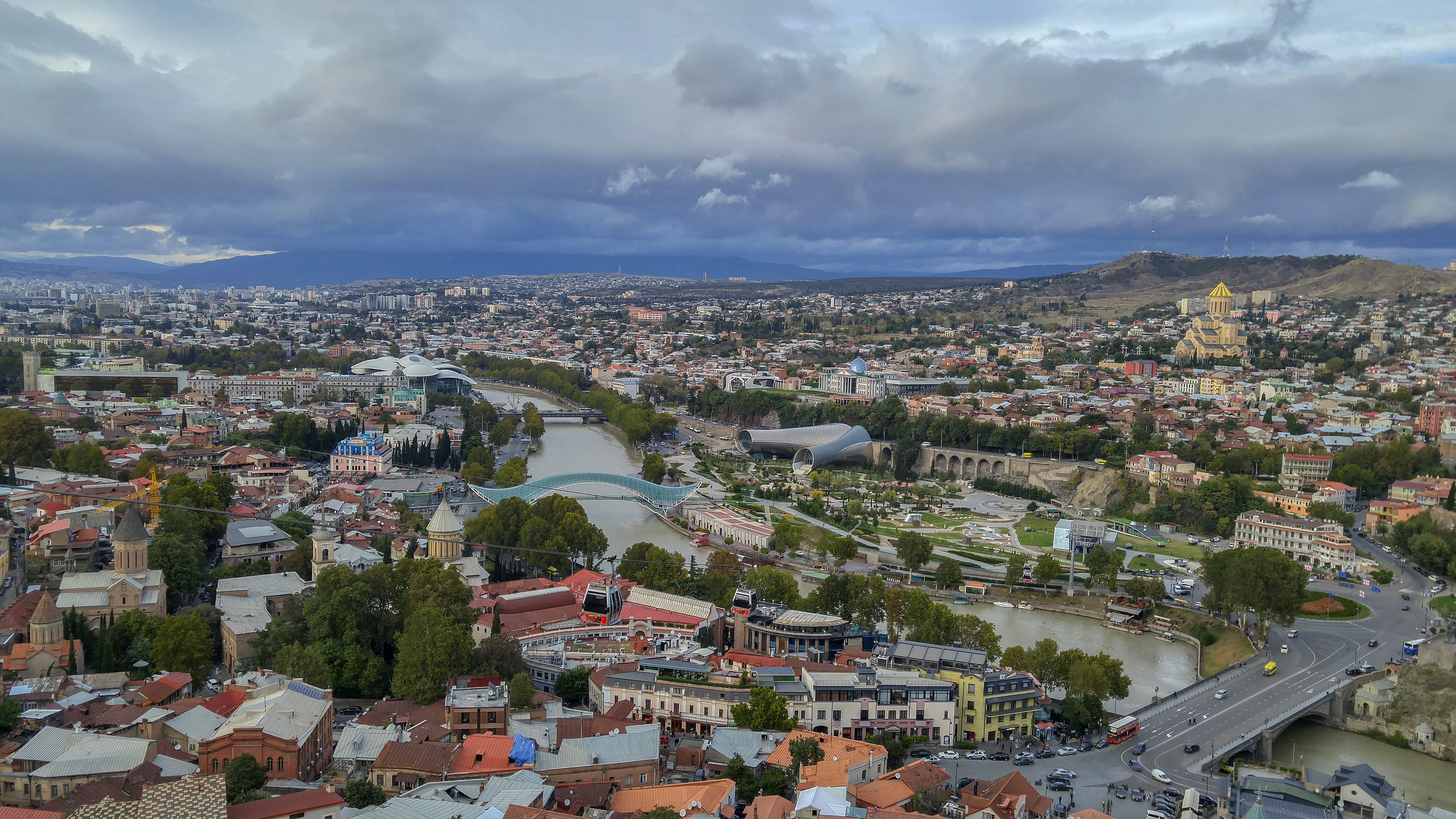 Tbilisi in some countries also still named by its pre-1936 international designation Tiflis is the capital and the largest city of Georgia, lying on the banks of the Kura River with a population of approximately 1.5 million people.